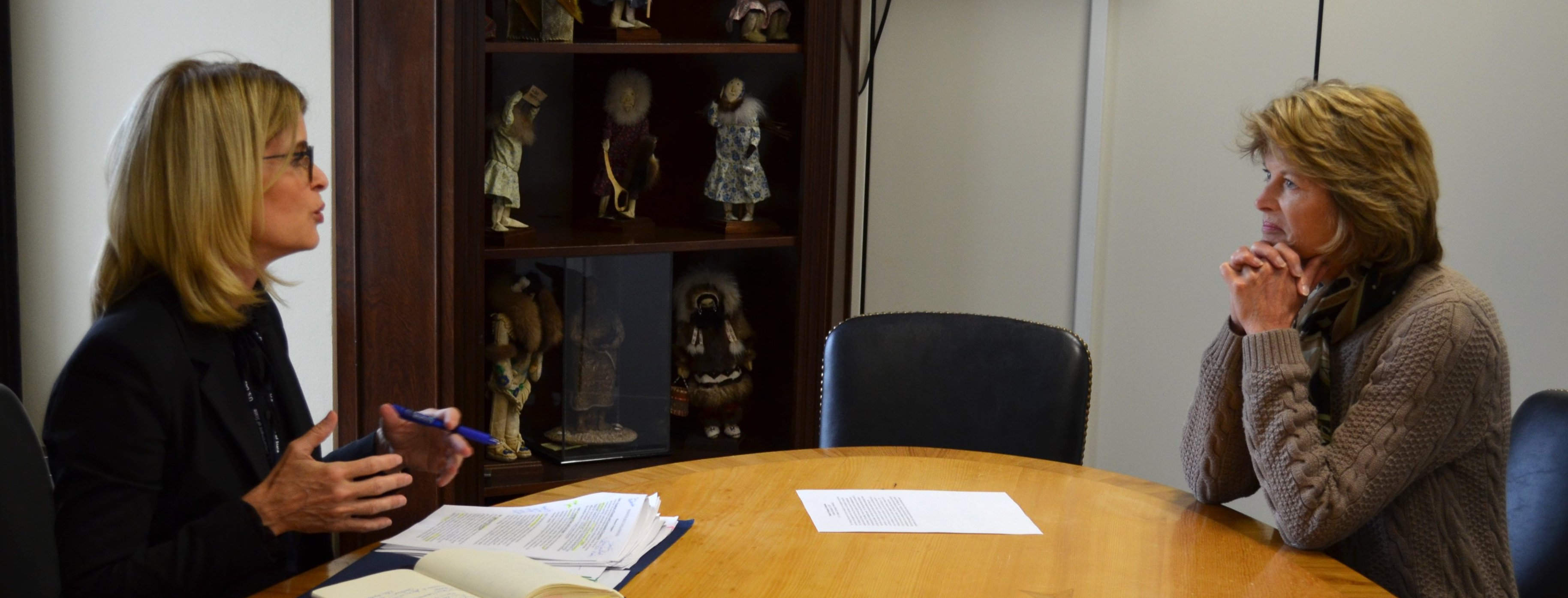 I recently had the opportunity to sit down with Denmark’s Ambassador Carla Sands (@USAmbDenmark) to discuss strengthening the ties between Alaska and Greenland so that we can do more to benefit the inhabitants of the #Arctic.